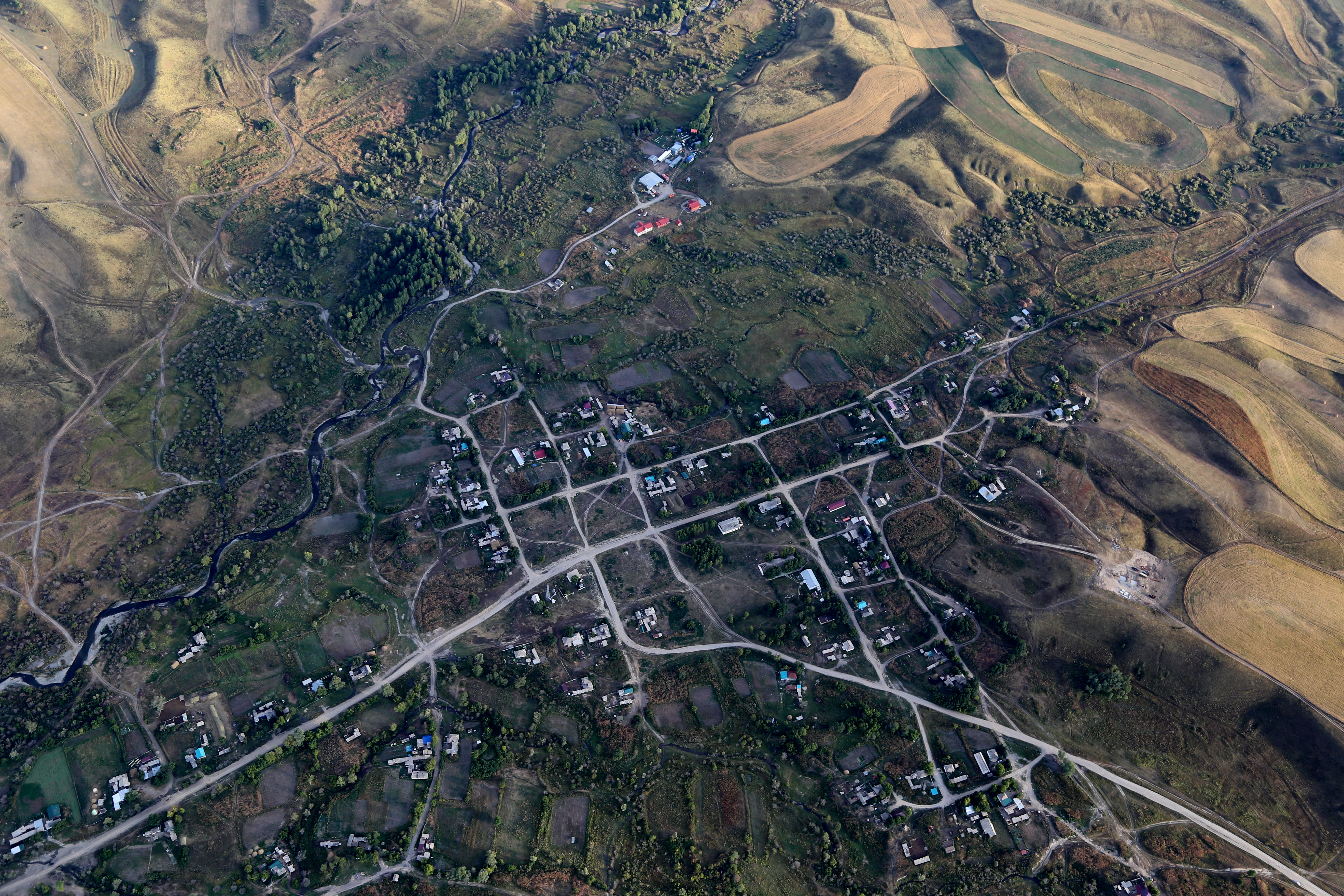 Topolevka, Sarkand District, Almaty Province